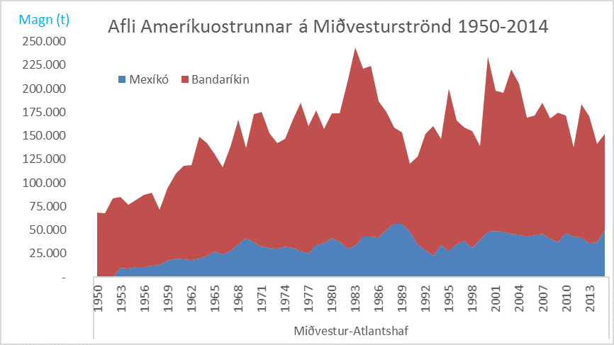 oysterfishing in america